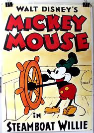 Poster "Steamboat Willie" 1928 / The Walt Disney Studio